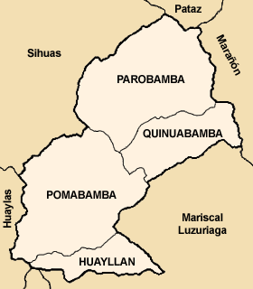 Districts of the Pomabamba province in Ancash region en Peru (Map)